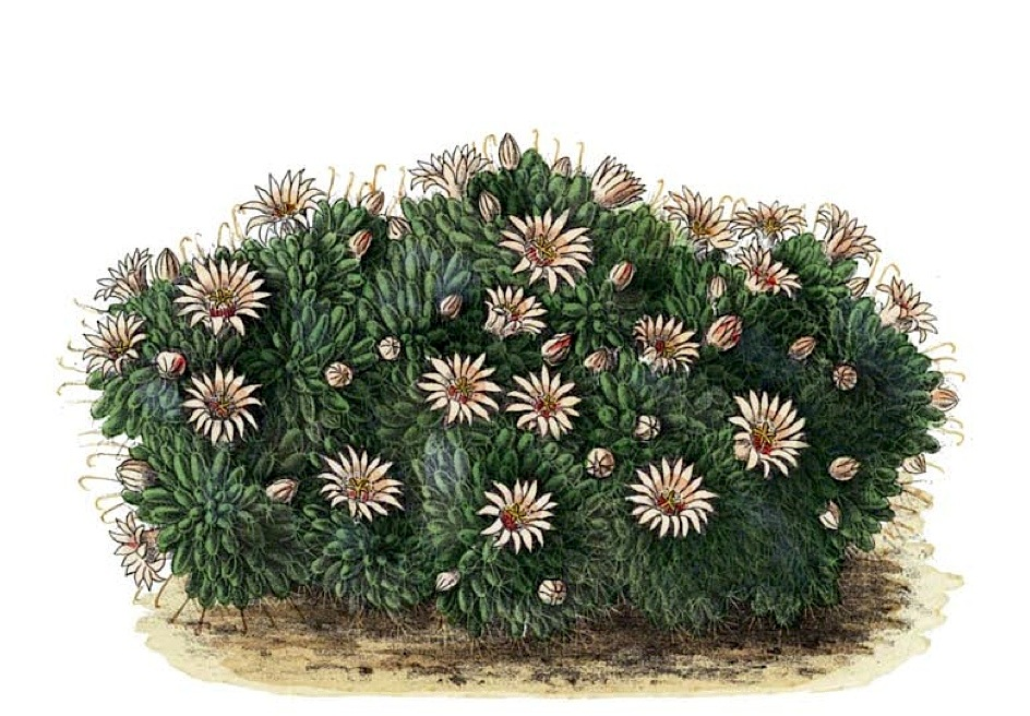 Mammillaria glochidiata